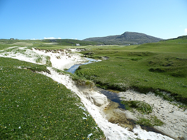 Abhainn Mhuilean Domhnuill This burn meanders across the machair above the beach at Allathasdal. The prominent hill is Beinn Cleit.